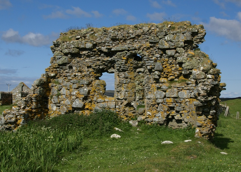 Howmore churches and chapels, Howmore (Tobha Mòr), South Uist, Outer Hebrides, Scotland - St Mary's Church (Teampull Mòr)